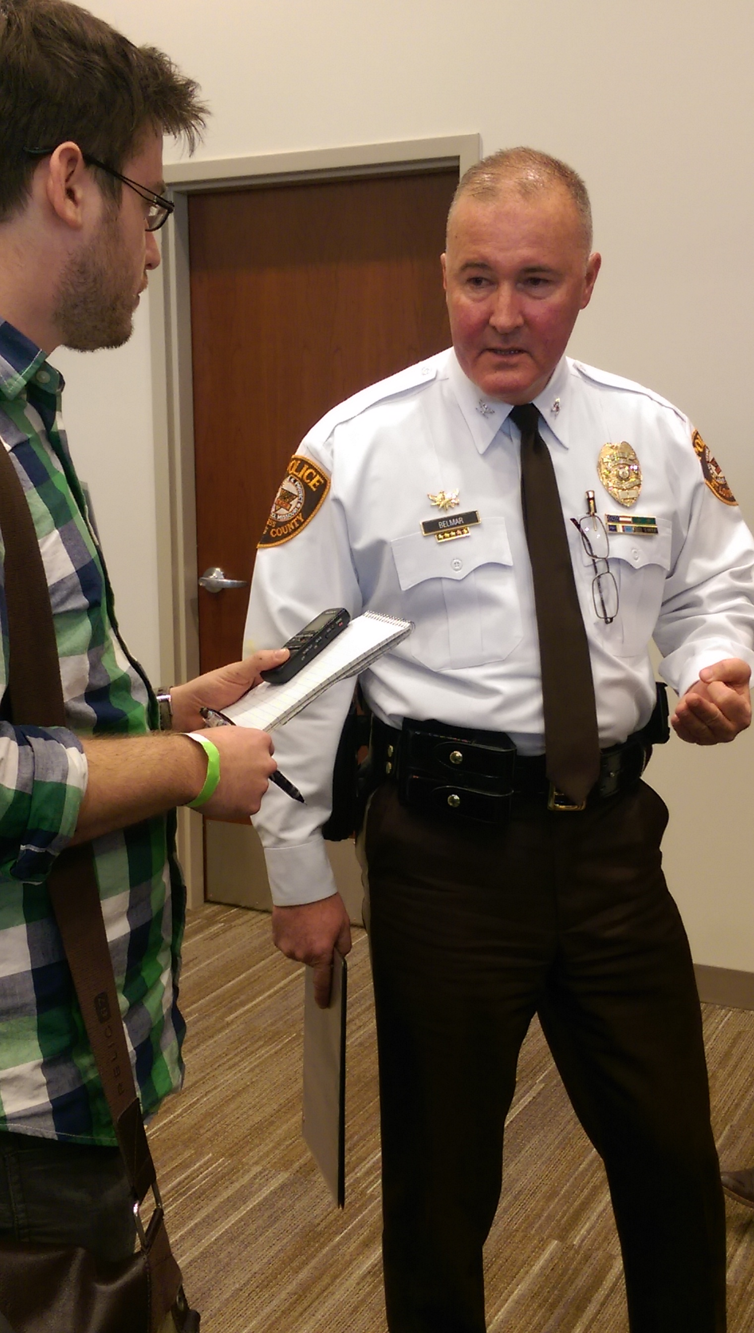 St. Louis County Police Chief Jon Belmar, February 2015